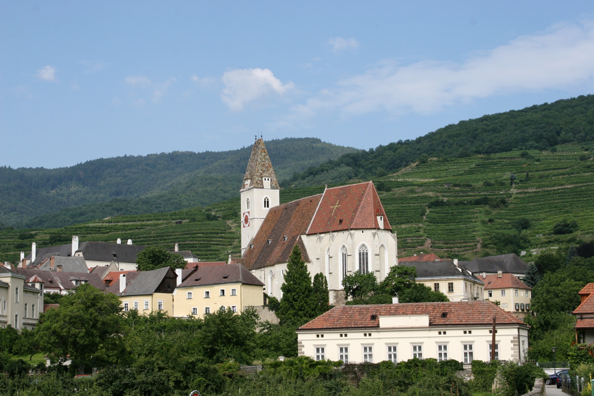 Spitz an der Donau, Lower Austria